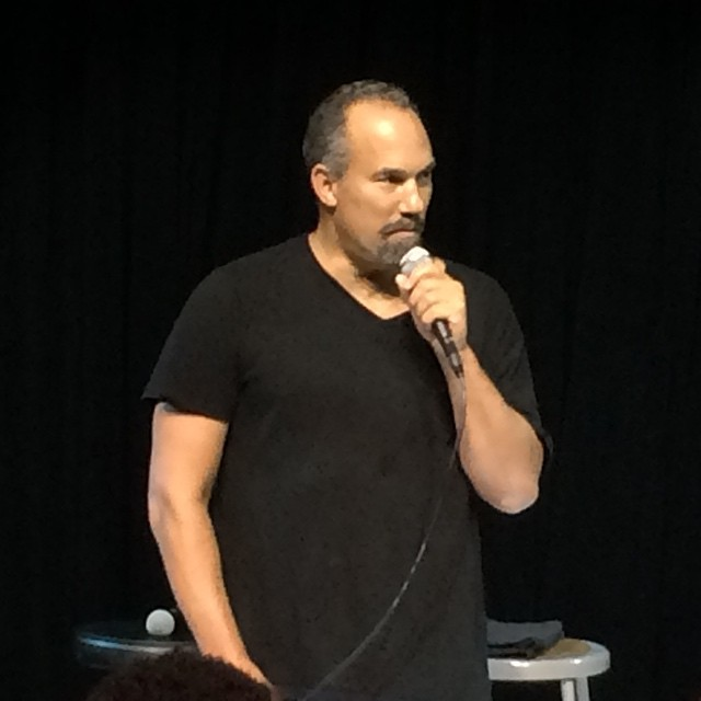 Just finished watching Roger Guenevere Smith's phenomenal one man performance